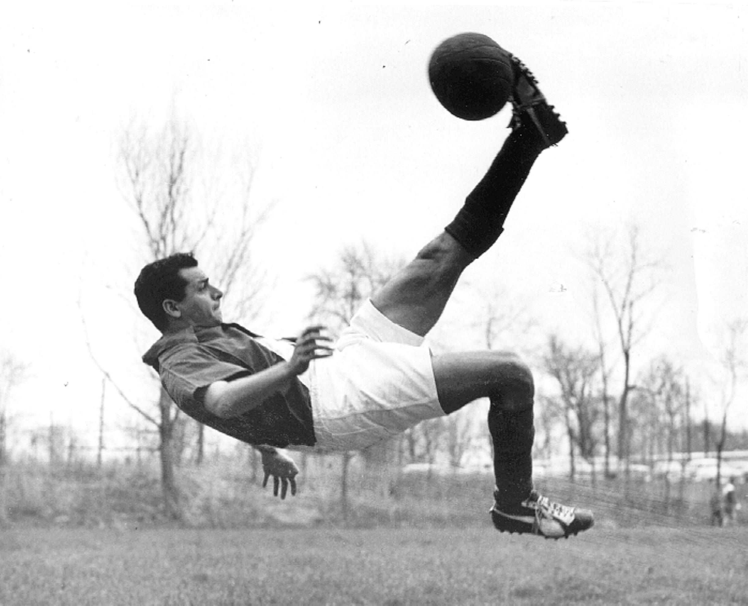 Ruben Mendoza performing his infamous "bicycle kick".